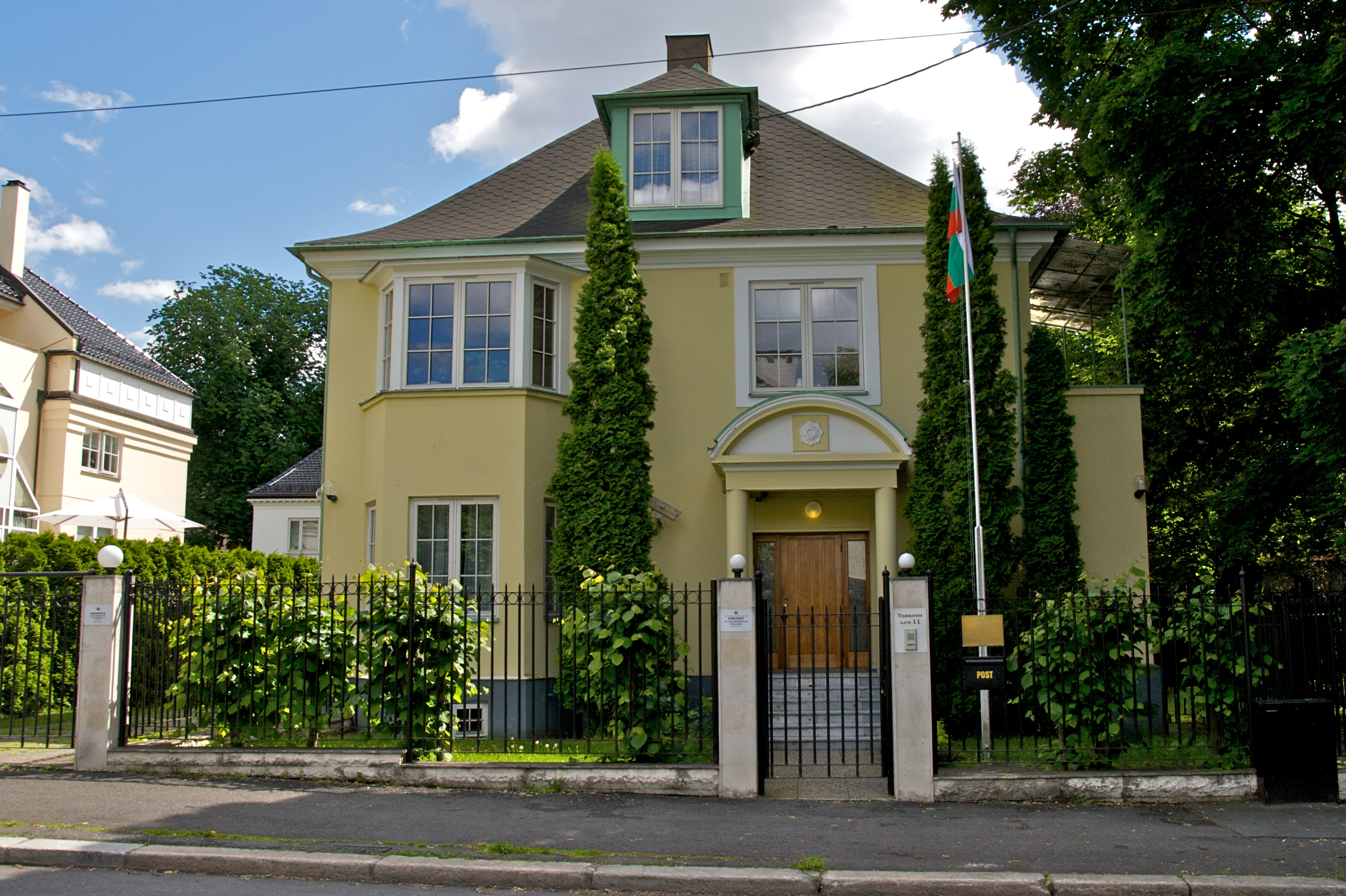 Bulgarian Embassy, Oslo, Norway.